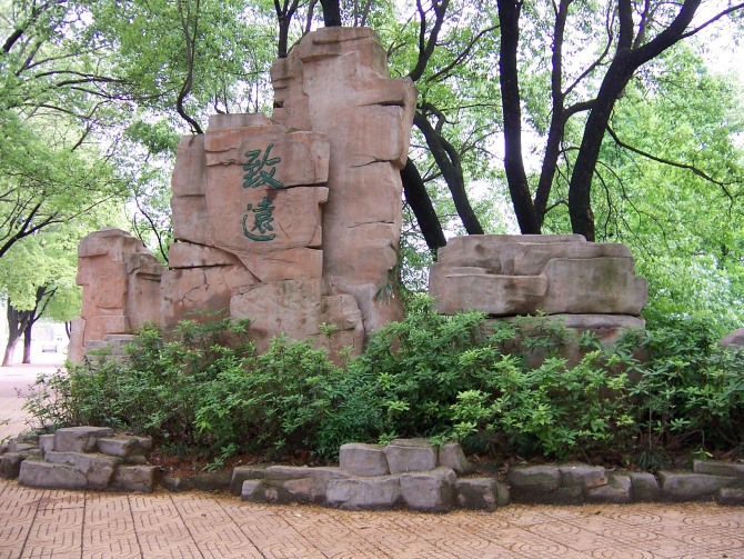 zhiyuan